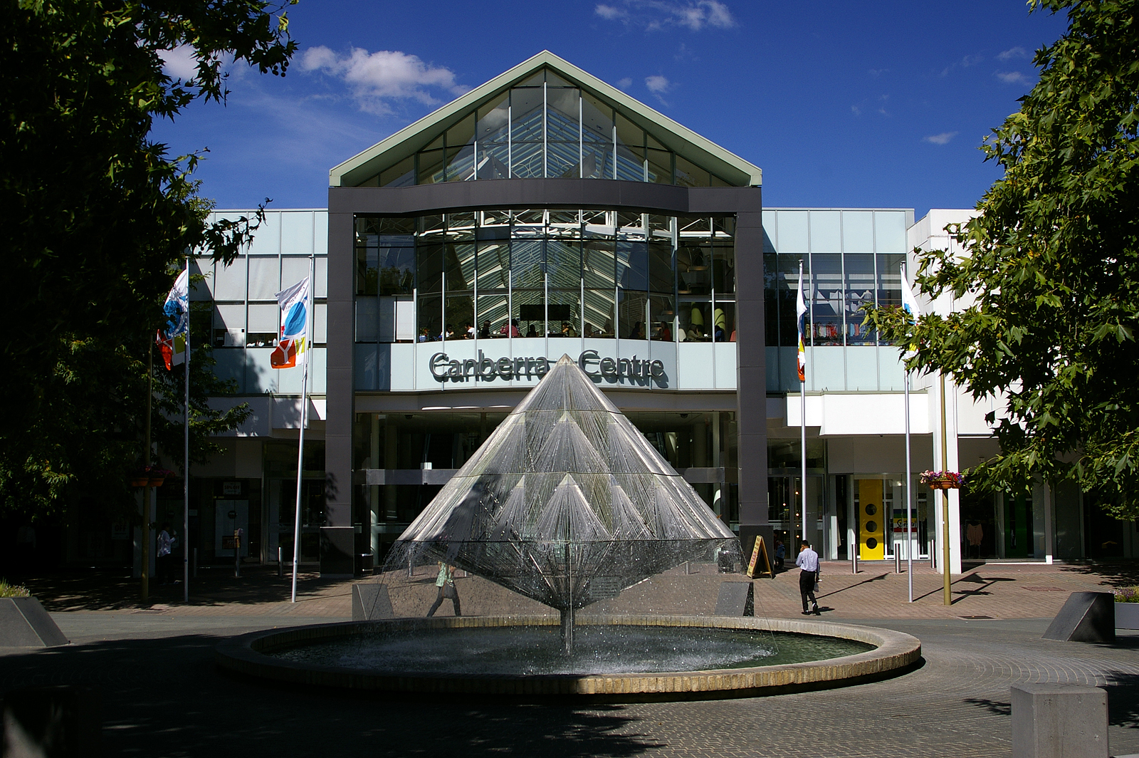 Canberra Centre City Walk entrance with "The Canberra Times Fountain", by Robert Woodward, in the foreground.